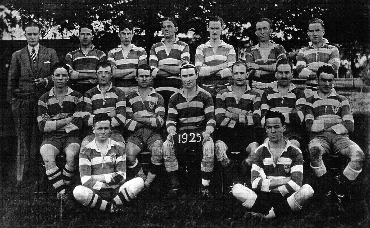 The rugby union team from Pacific Railway A.C. (current "Club Atlético Ferrocarril General San Martín"), a sports club of Buenos Aires, Argentina.